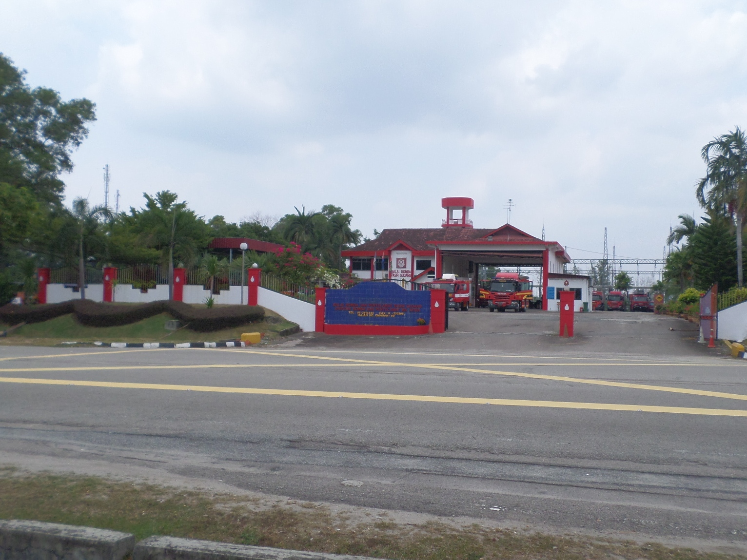 Pasir Gudang Fire Station, Pasir Gudang, Johor Bahru, Johor, Malaysia